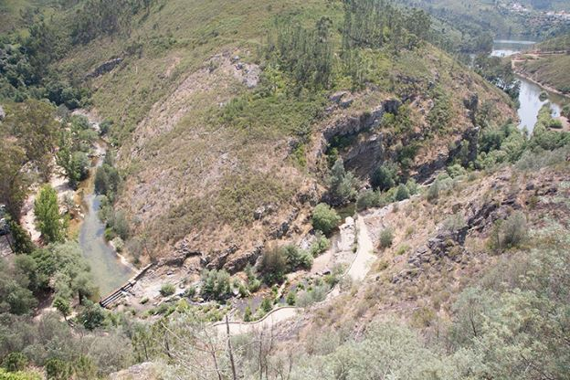 Penedo Furado Beach and River